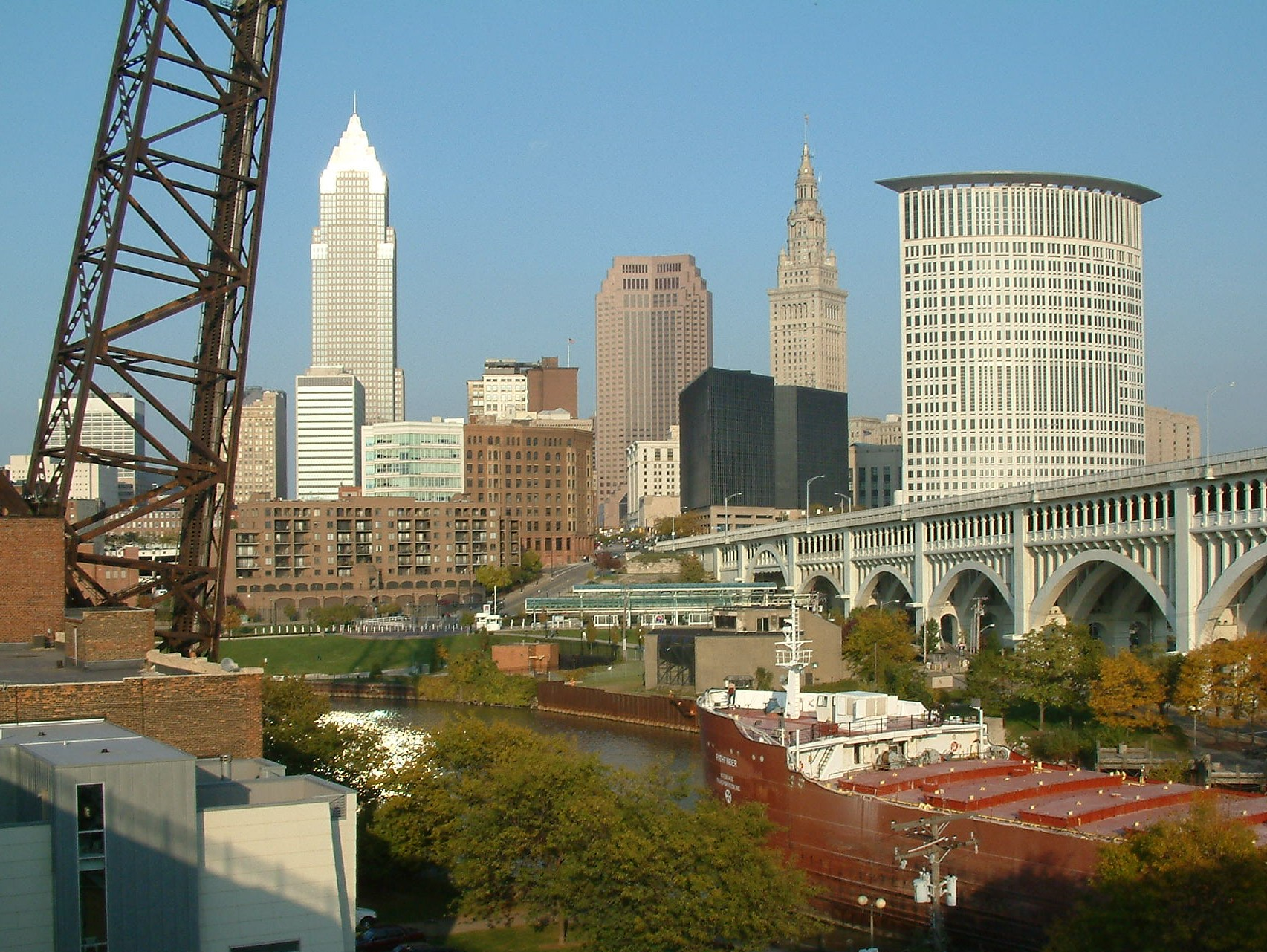 View of Downtown Cleveland Skyline, taken from the Superior Viaduct. Views of Key Tower, BP Tower, and Terminal Tower, with the Detroit-Superior Bridge to the right (south) and an ore carrier moving down the Cuyahoga River (the tug/barge combination Pathfinder/Dorothy Ann).